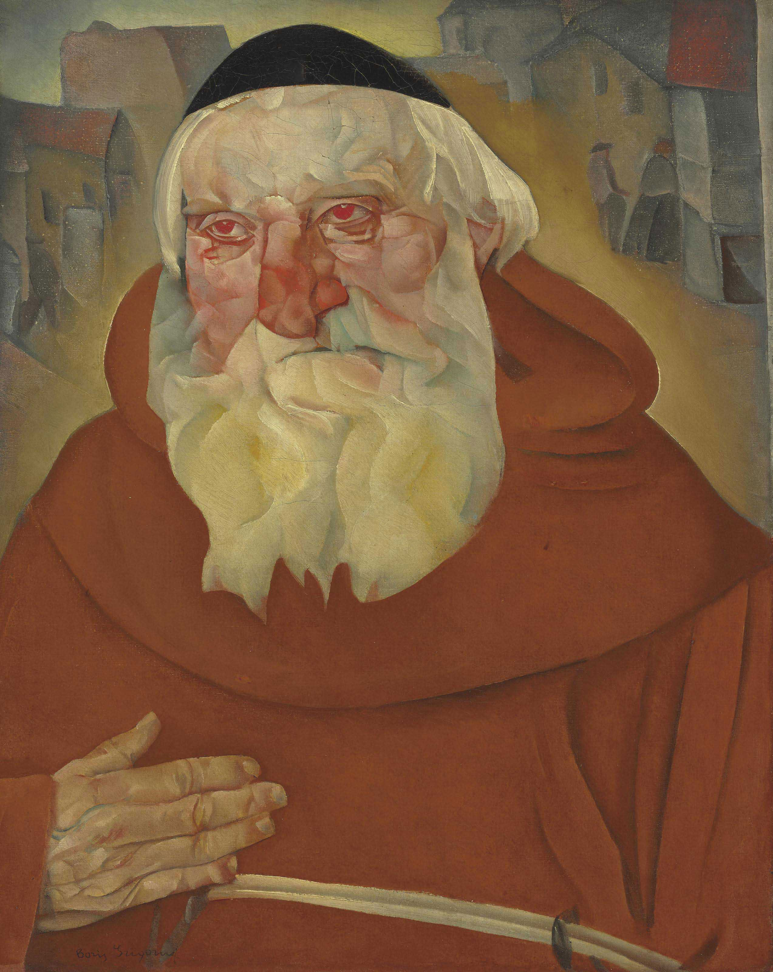 Борис Григорьев. "Монах", 1922 год. Boris Grigoriev (1886-1939) The monk signed 'Boris Grigorief' (lower left) oil on canvas 31½ x 25¼ in. (80 x 64.1 cm.) Painted in 1922